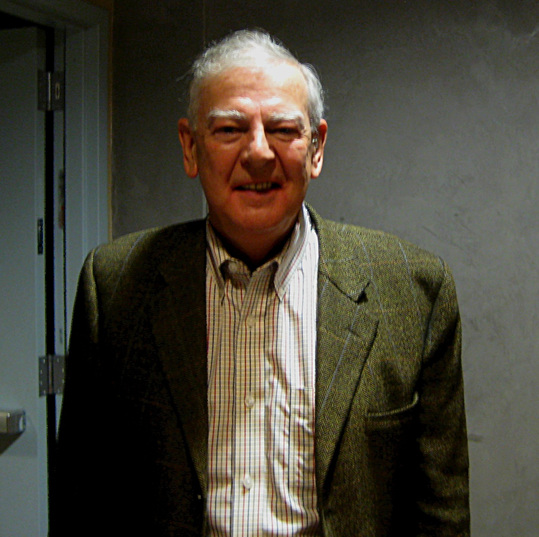 A portrait of Donald Johanson, paleoanthropologist and author who discovered the "Lucy" hominid fossil.